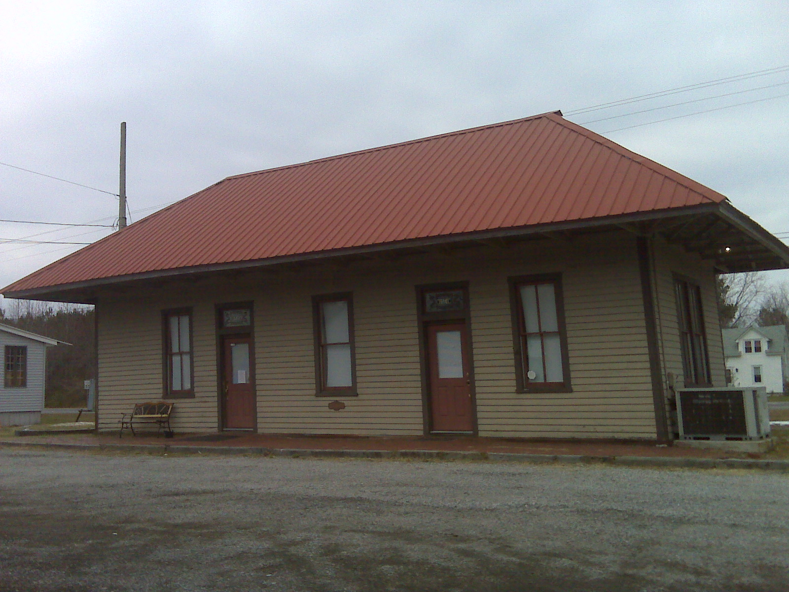 A picture of the train station in Marion Station, Maryland, facing MD 667.